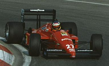 Michele Alboreto driving for Scuderia Ferrari at the 1988 Canadian Grand Prix.